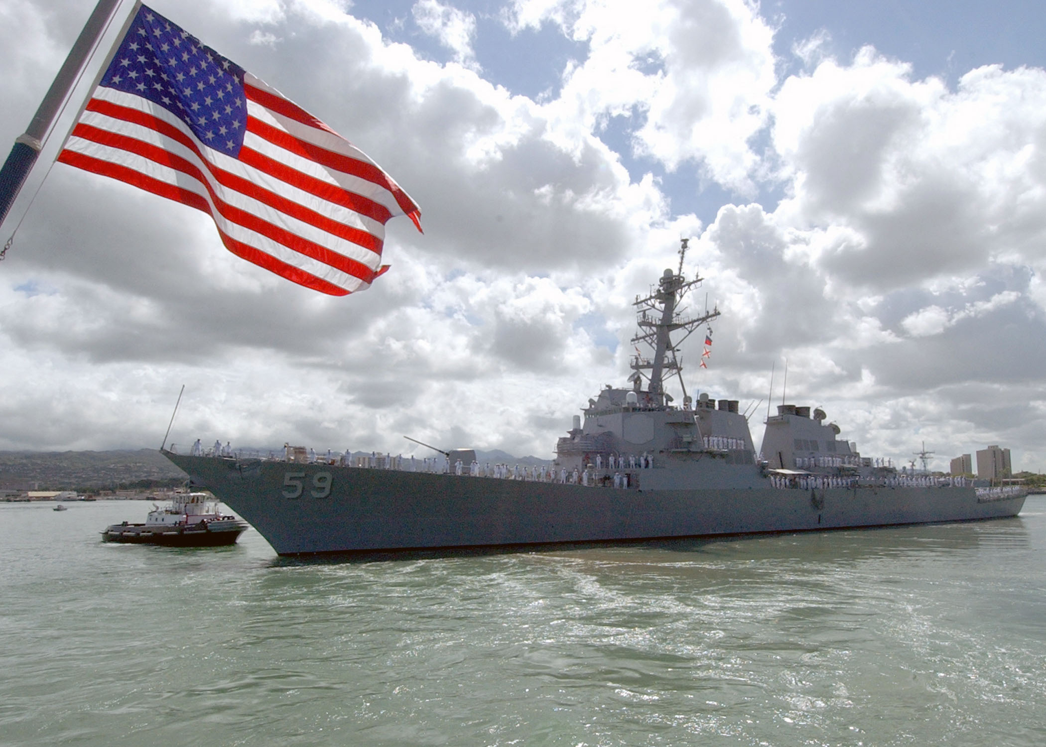 Sailors aboard the Arleigh Burke-class guided missile destroyer USS Russell (DDG 59) man the rails as the ship departs Pearl Harbor. Russell and her crew of more than 330 Sailors are deploying to the Western Pacific to participate in Cooperation Afloat Readiness and Training Exercise (CARAT 2004).